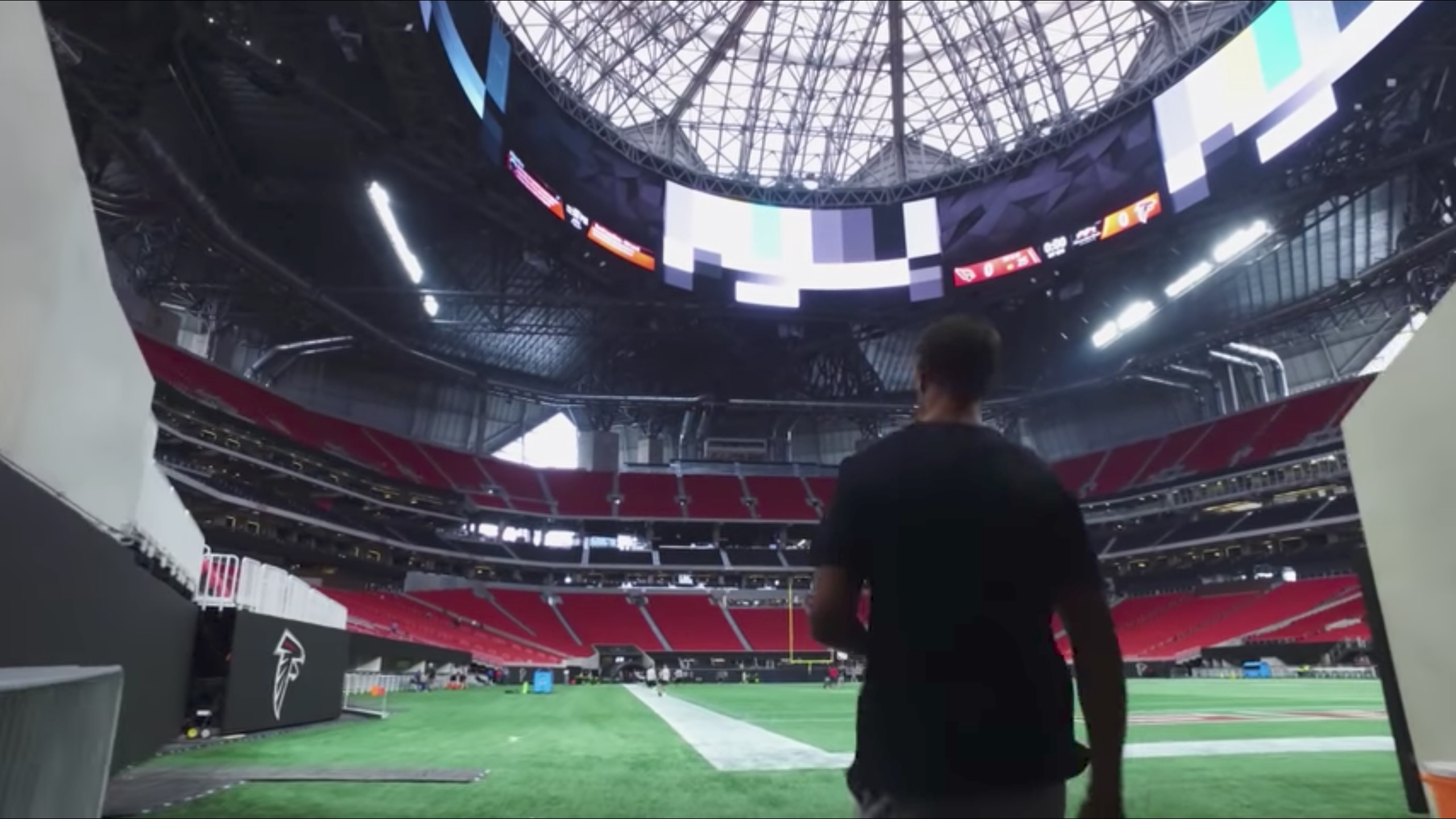 Interior of Mercedes-Benz Stadium, newly completed in August 2017.